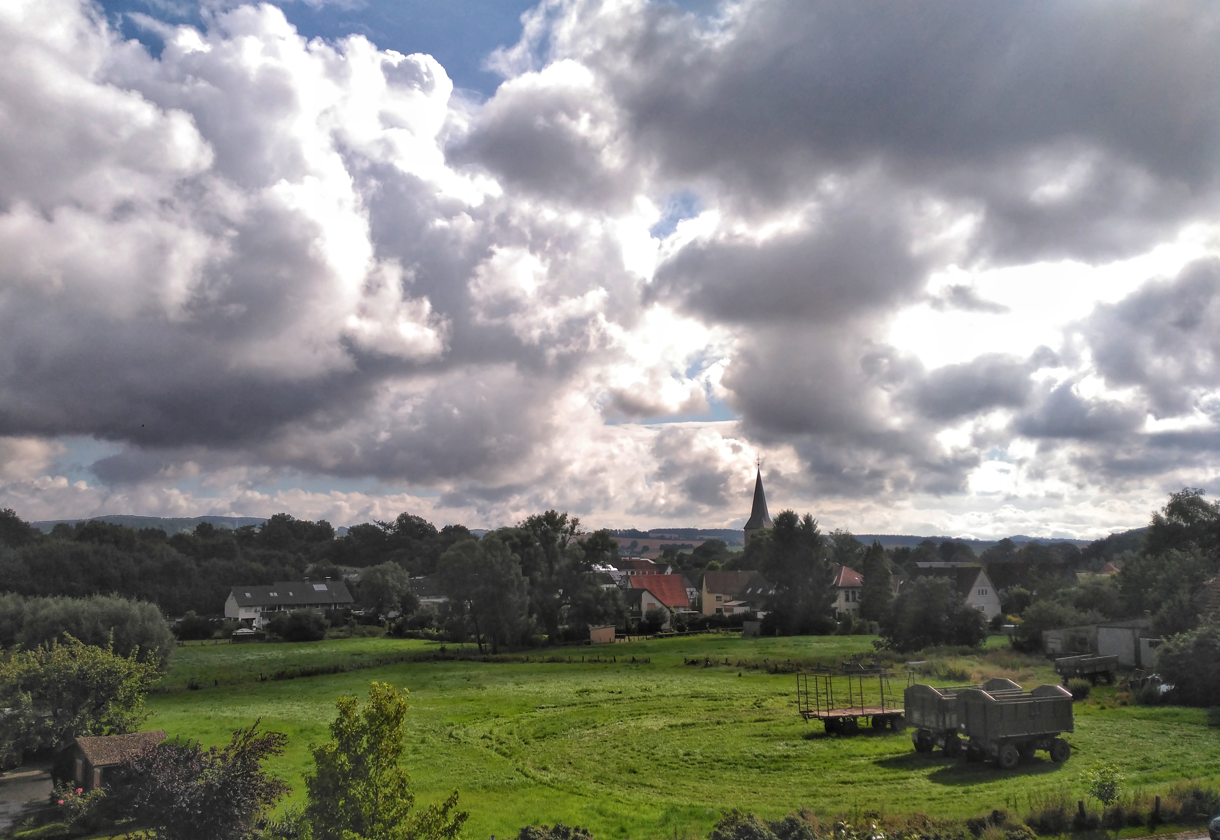 Bega is a small village in the municipality of Dörentrup in Germany with a population of around 1,400. The river Bega, with the same name, crosses the village.